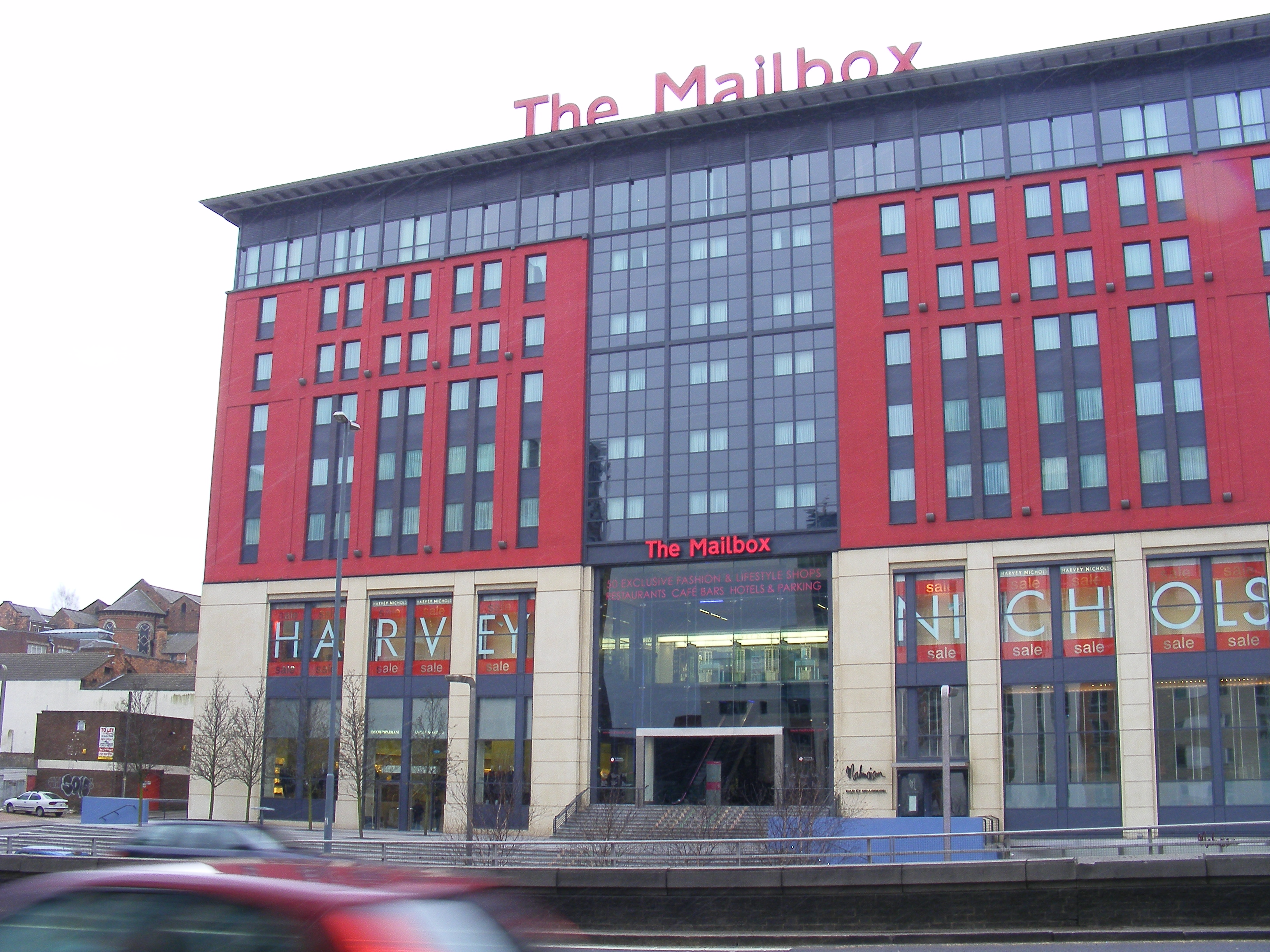 The Mailbox, Birmingham, front view. The foreground is part of the Queensway, Birmingham's inner ring road which has a series of underpasses at major junctions. In the background, to the left, is Singer's Hill Synagogue. The random white streaks are the beginning of the February 2009 snowfall.